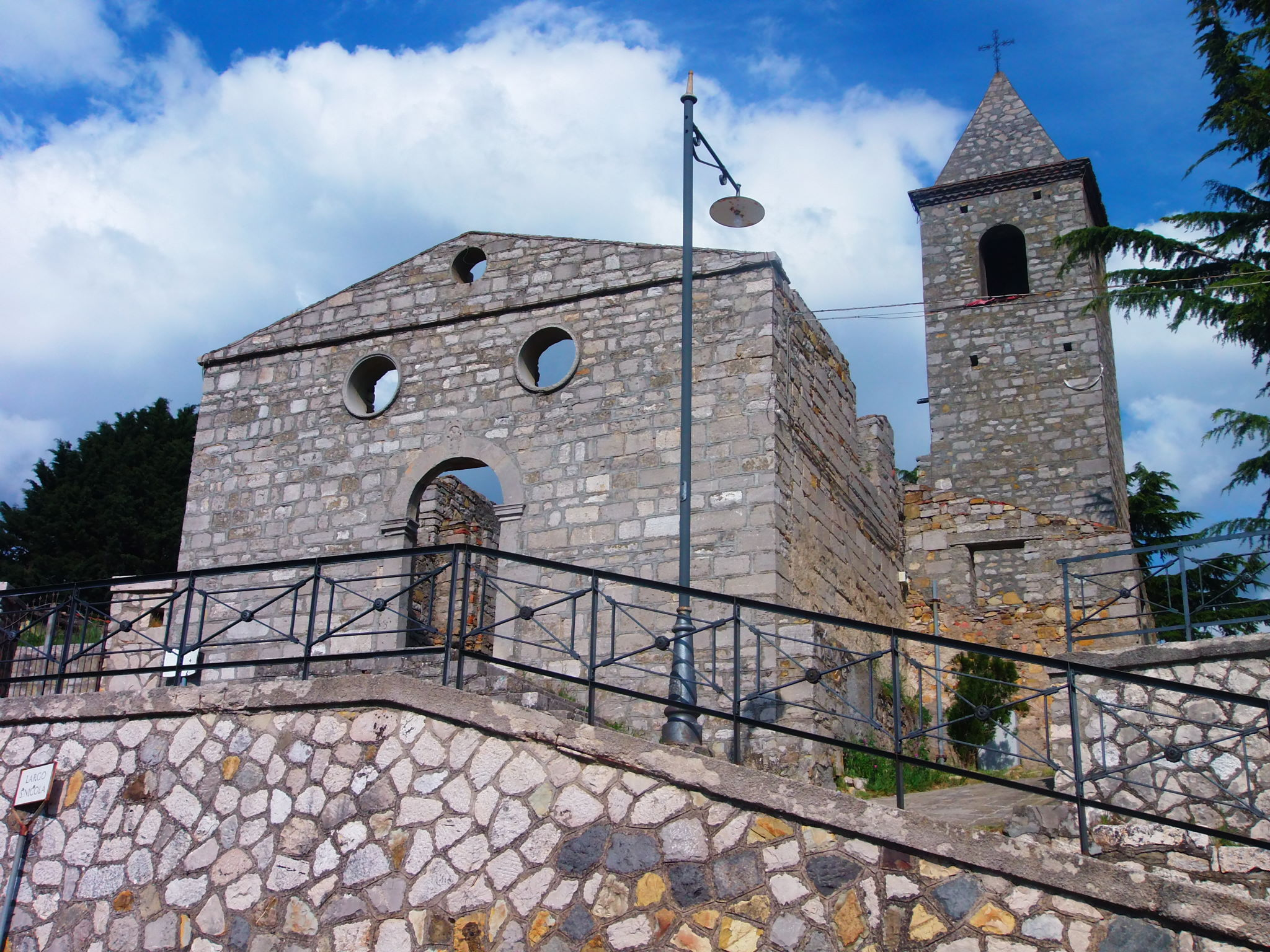 Si tratta della Chiesa di San Donatp